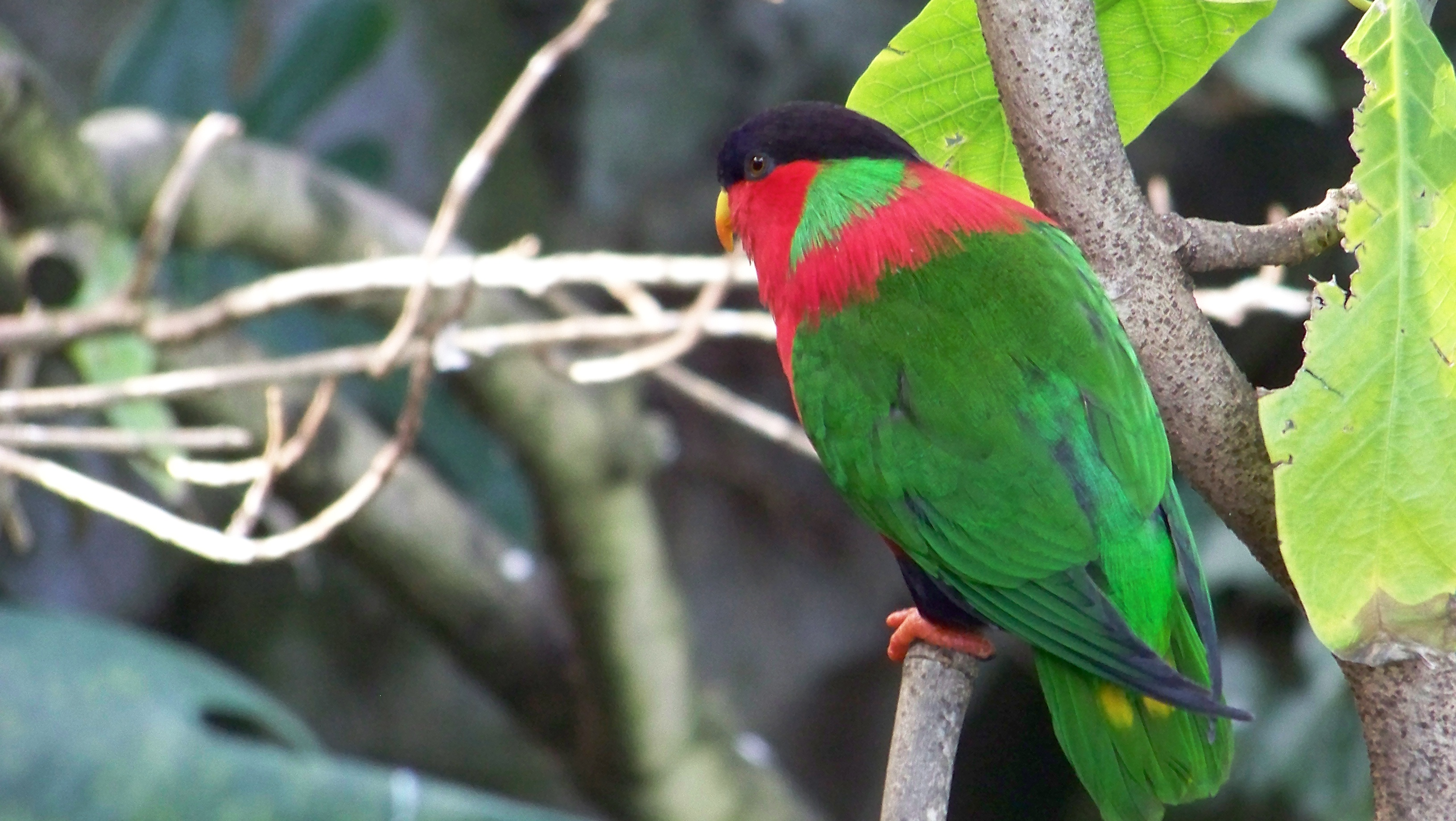 Collared Lory photographed at San Diego Zoo, USA.